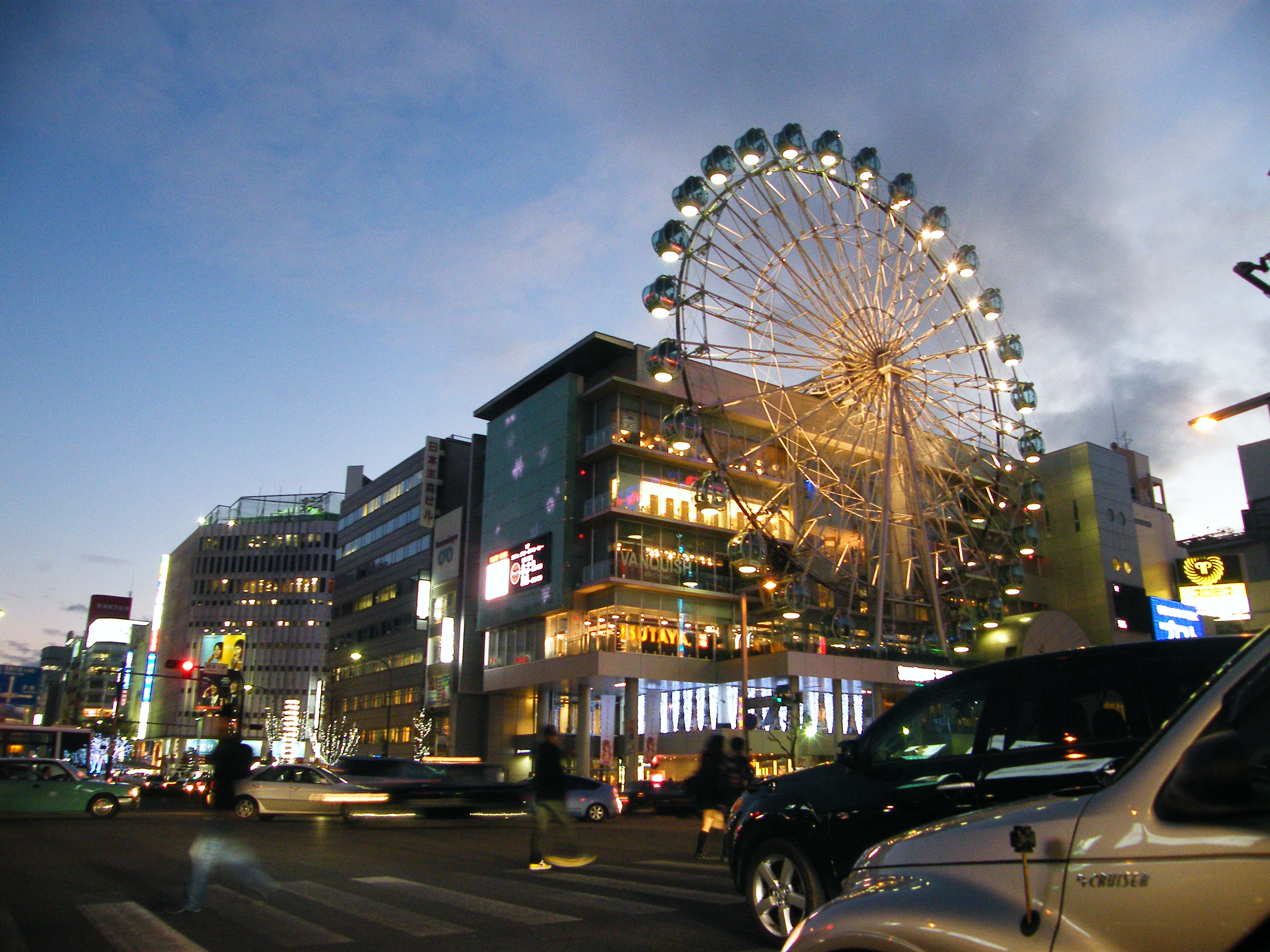 Ferris Wheel at Sakae, Nagoya